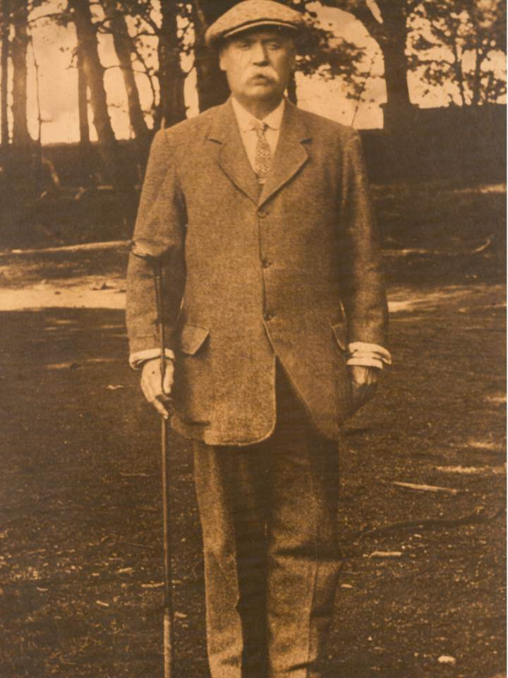 James Kay's career is described on the Seaton Carew Golf Club page. Kay qualified 22 times for the Open Championship and achieving top 6 places in both the 1892 & 1893 Open Golf Championships. A well known "money match" player of his day defeating the great "triumvirate" of Golf when head to head.